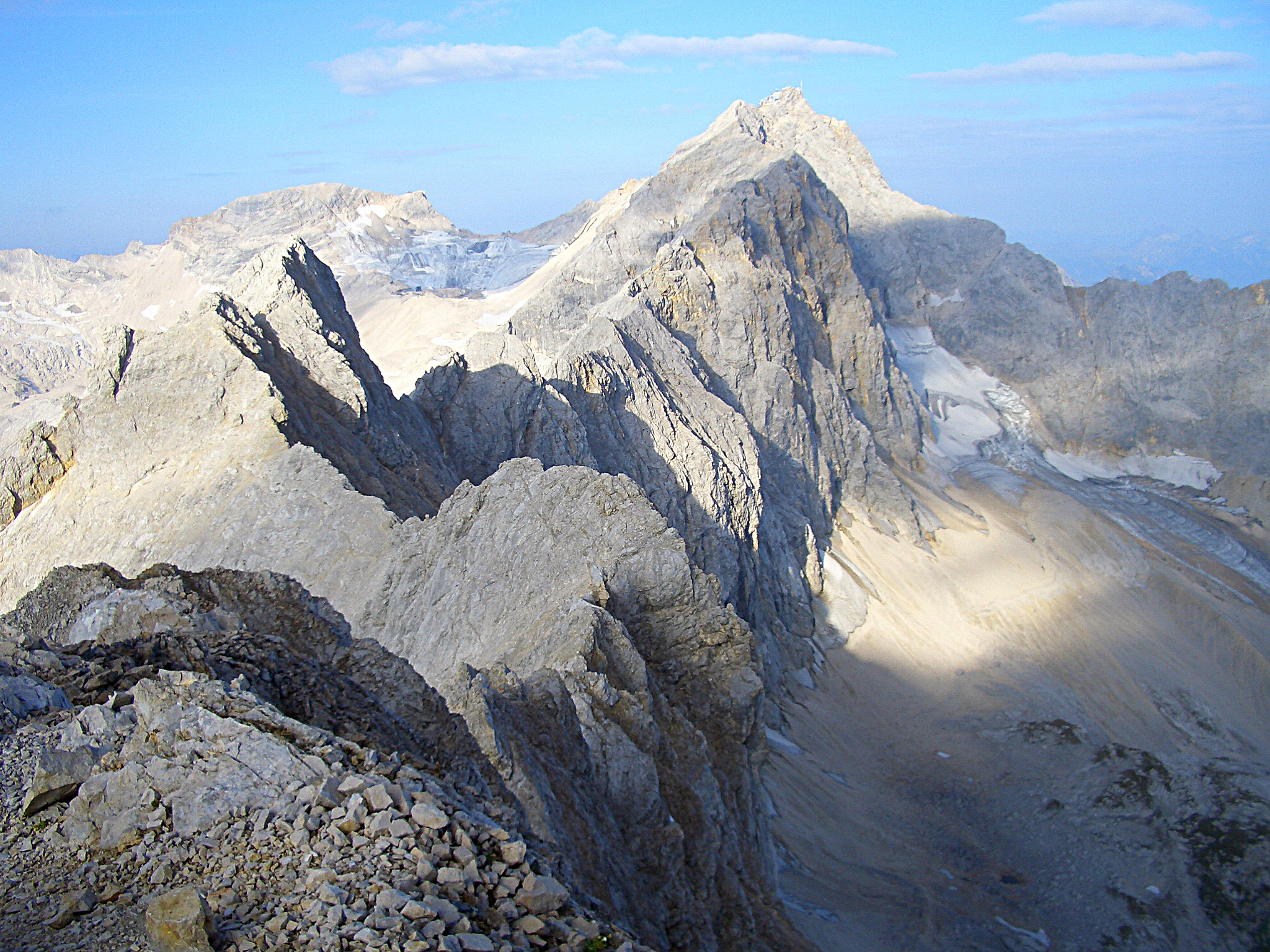 Western part of the Jubiläumsgrat with the eastern peak of the Zugspitze (2.962 m) depicting its three glaciers (Höllentalferner, northern and southern Schneeferner) from East (seen from Mittlere Höllentalspitze).